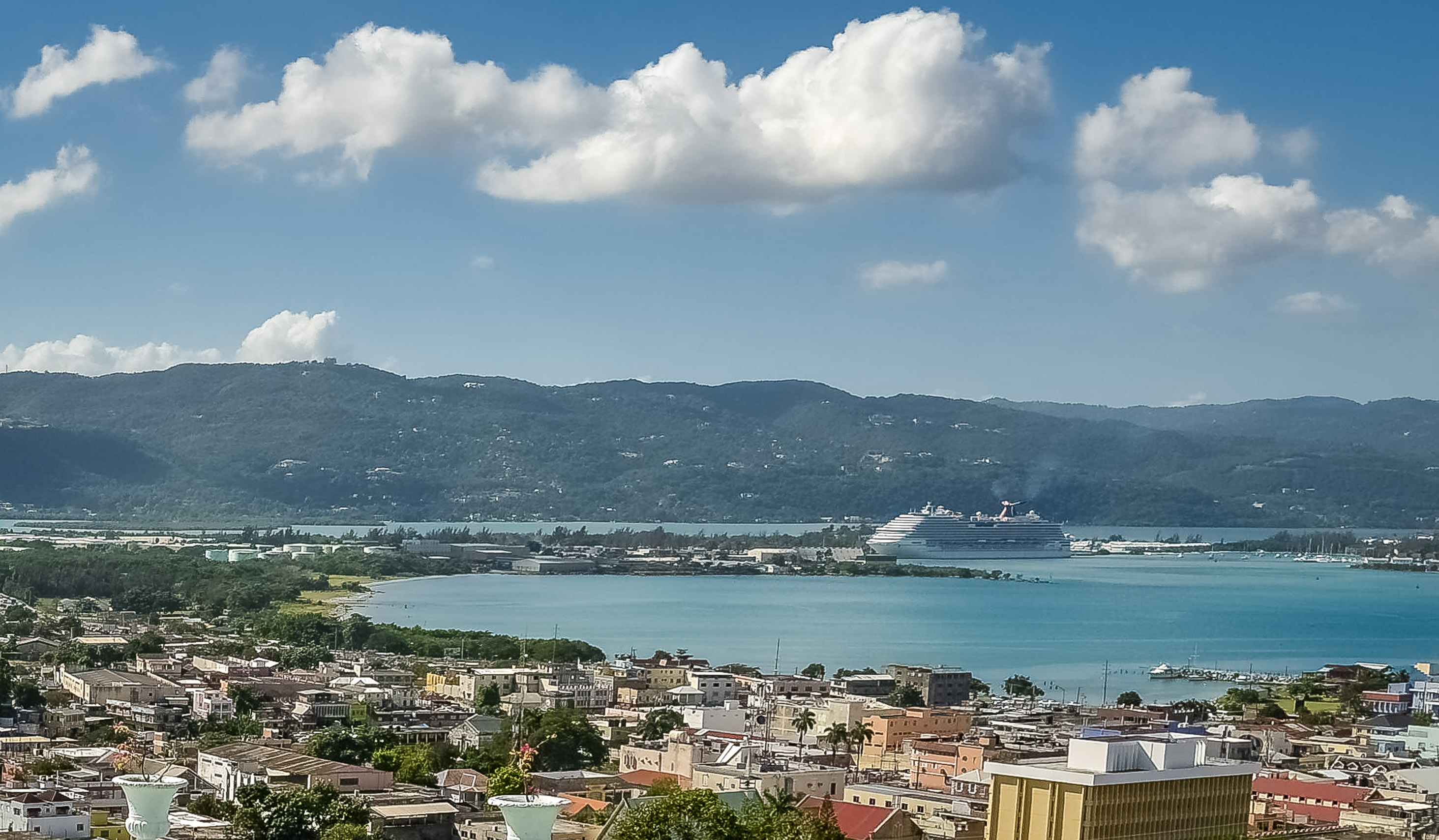 cruise ship, Montego Bay, Jamaica, Carnival